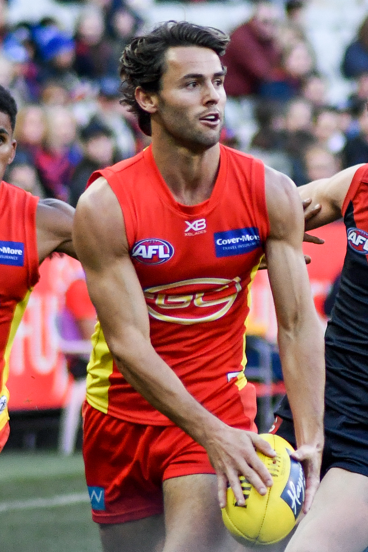 Lachie Weller of Gold Coast during the 2018 AFL round 20 match between Melbourne and Gold Coast at the Melbourne Cricket Ground on Sunday, 5 August 2018 in Melbourne, Victoria.